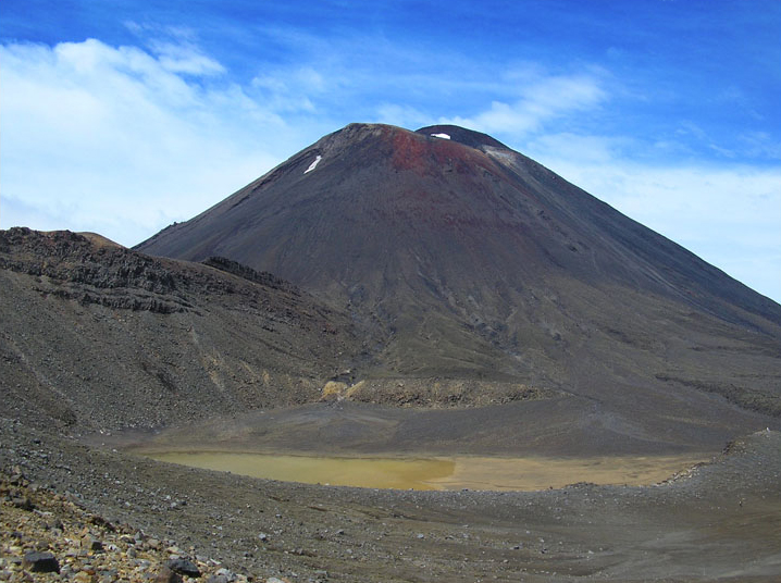 Mount Ngauruhoe By Royi Avital.